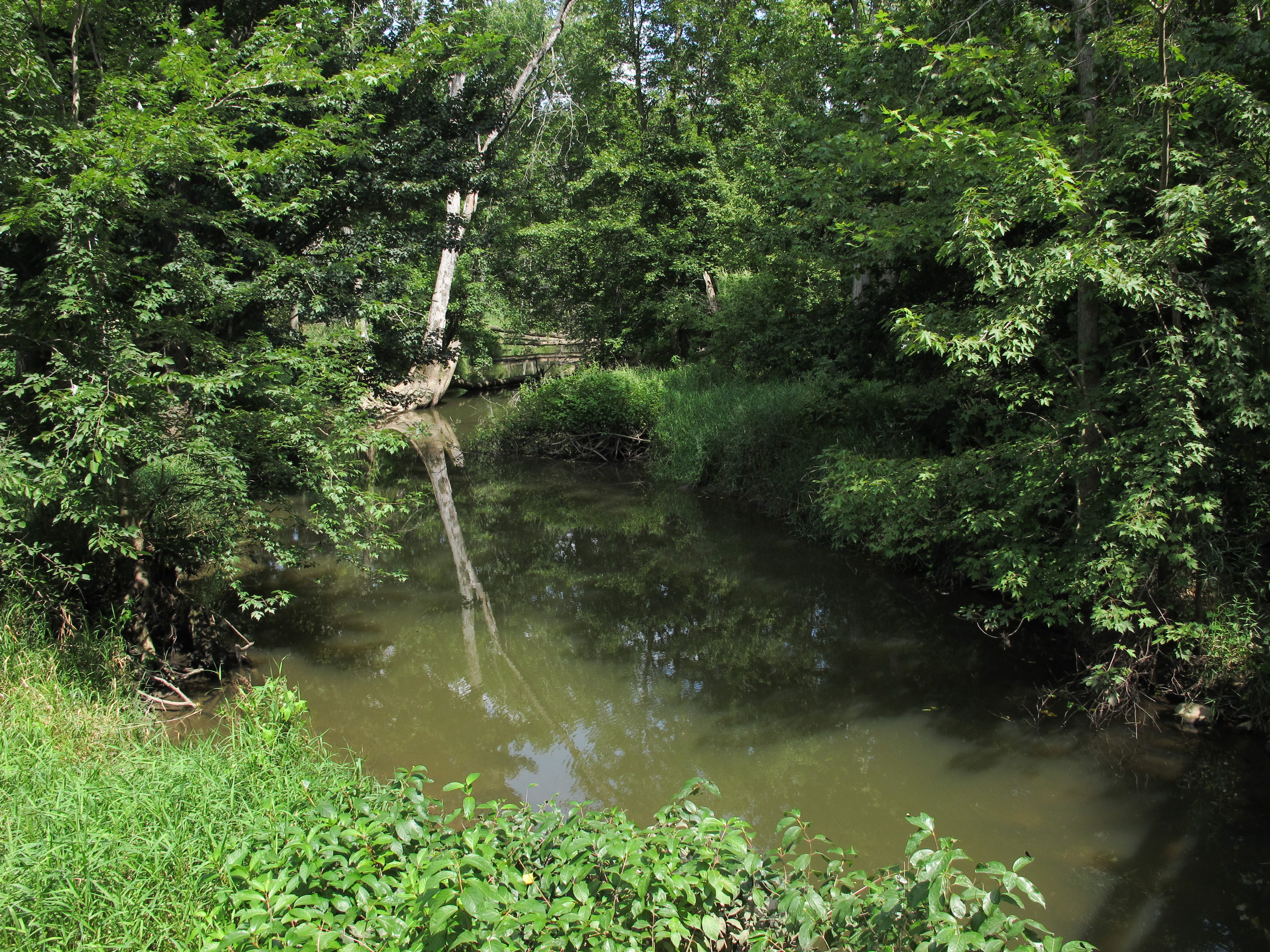 The Little Thornapple River as viewed from the north side of West Gresham Highway in Chester Township in Eaton County, Michigan.